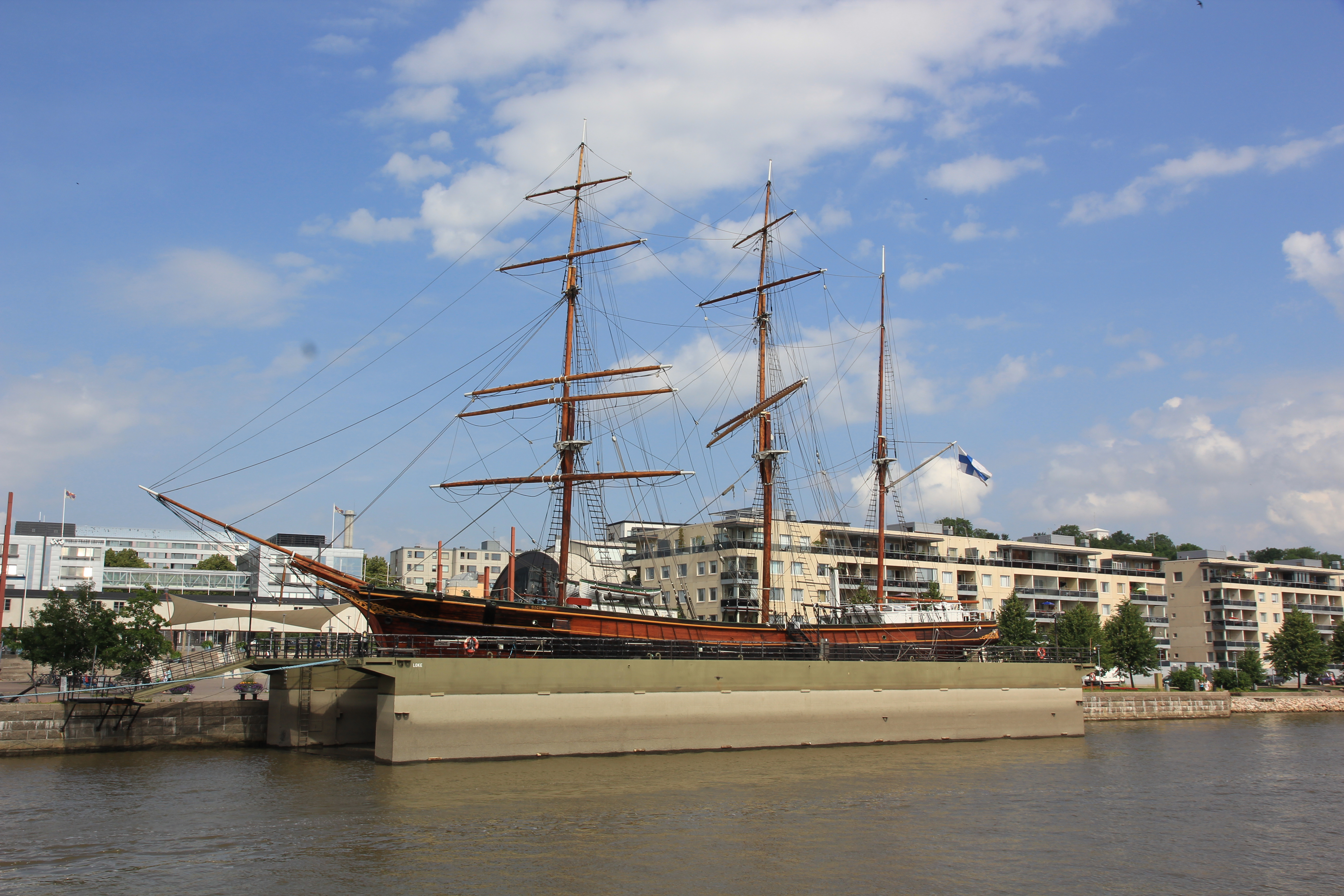 Museum ship Sigyn in Aura river in Turku. The floating dry dock has been raised so the ship is clear from the water.